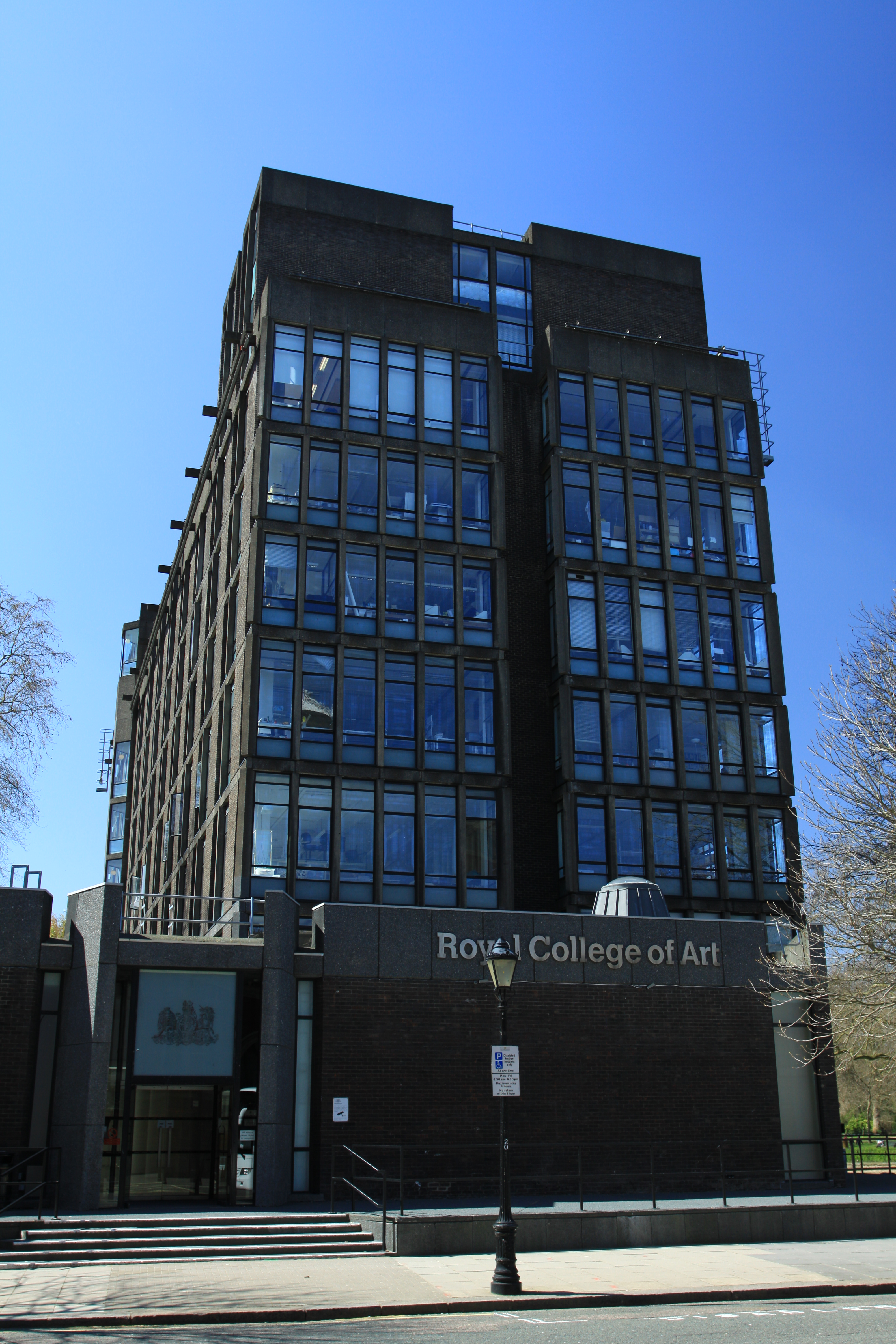 Darwin Building, Royal College of Art in the City of Westminster, London, Great Britain. The making of this file was supported by Wikimedia UK.